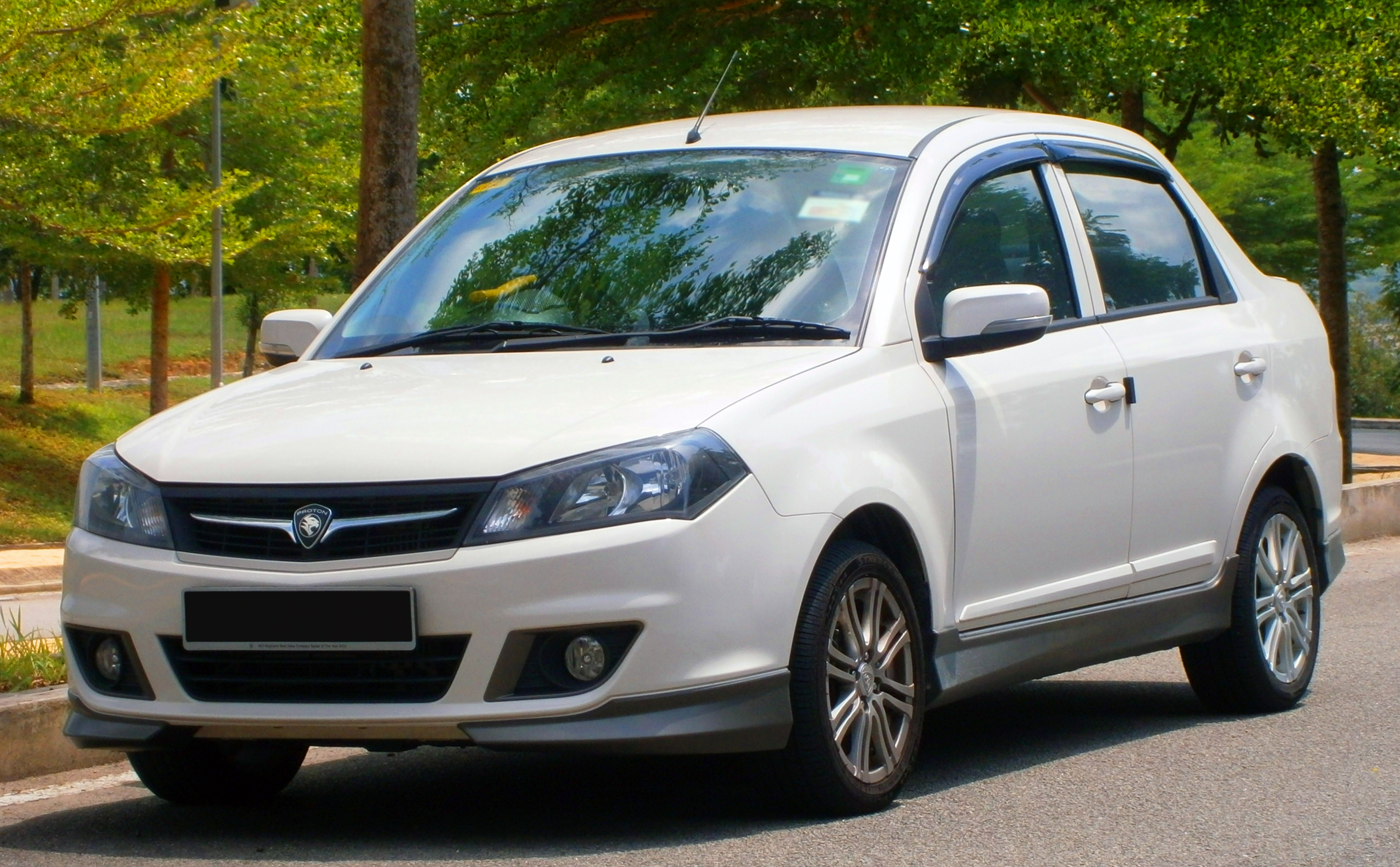 2013 Proton Saga FLX SE in Cyberjaya, Malaysia. Colour : Solid White Designed & Assembled in Malaysia